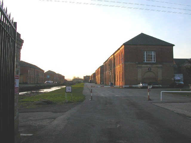 Weedon BEC. Weedon Royal Ordnance depot from 1803--1965 storing anything from weapons to clothing and serving through all wars and including WW2.Originally linked to Grand Union canal and later West coast mainline.